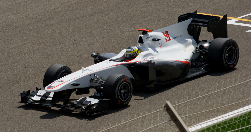 Sauber BMW in Barhein 2010